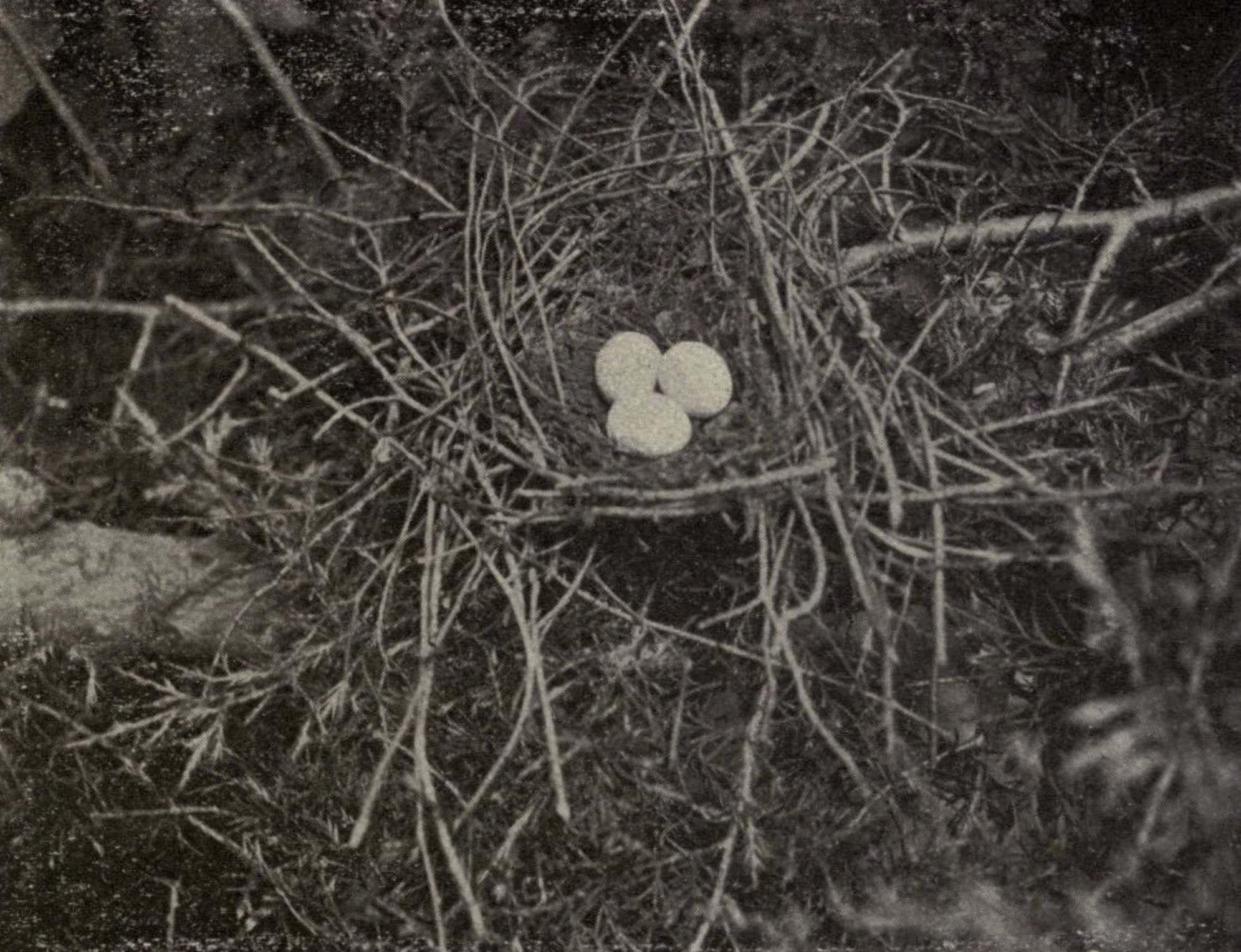 Coccyzus erythropthalmus (Black-billed Cuckoo) nest. Original caption: "No. 11. Nest and three eggs of Black-billed Cuckoo."